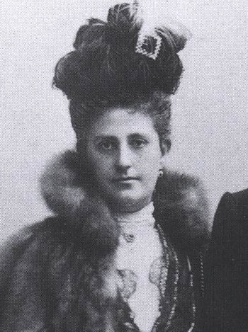 Archduchesse Maria Theresia Antoinette (1862-1933) of Austria-Toscana, wife of Archduke Karl Stephan of Austria-Teschen (1860-1933)